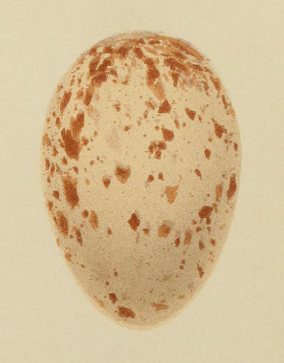 Egg of Crex crex